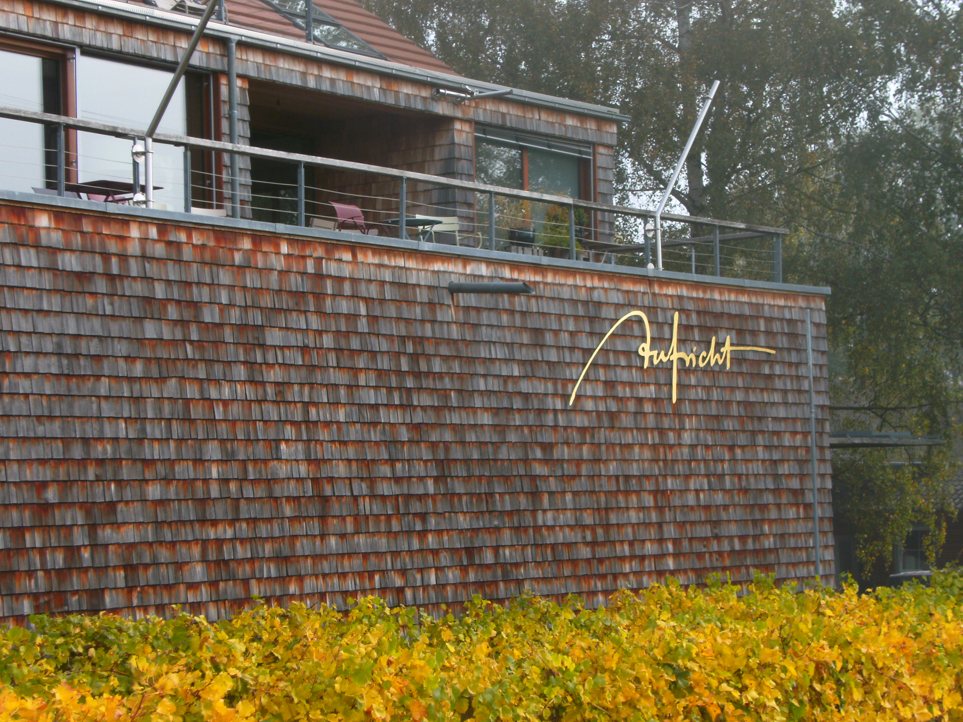 Stetten (Bodenseekreis): Höhenweg, Weingut Aufricht (vineyard). Building, view from the south.